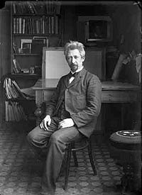 Severin Worm-Petersen in his studio in Kristiania (Oslo).